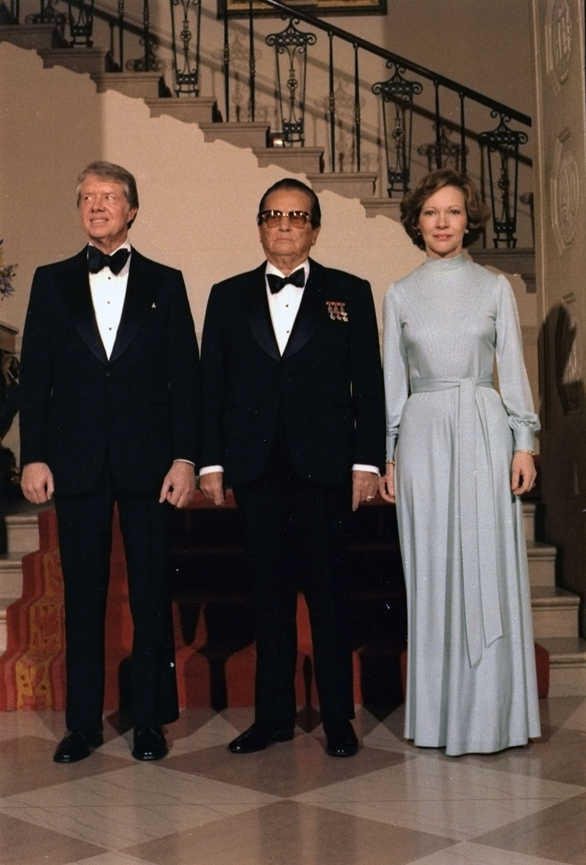 Description: Jimmy Carter, Josip Tito and Rosalynn Carter pose for a formal portrait during a state dinner Source: Carter White House Photographs Collection Date: 03/07/1978 Licence: Public Domain